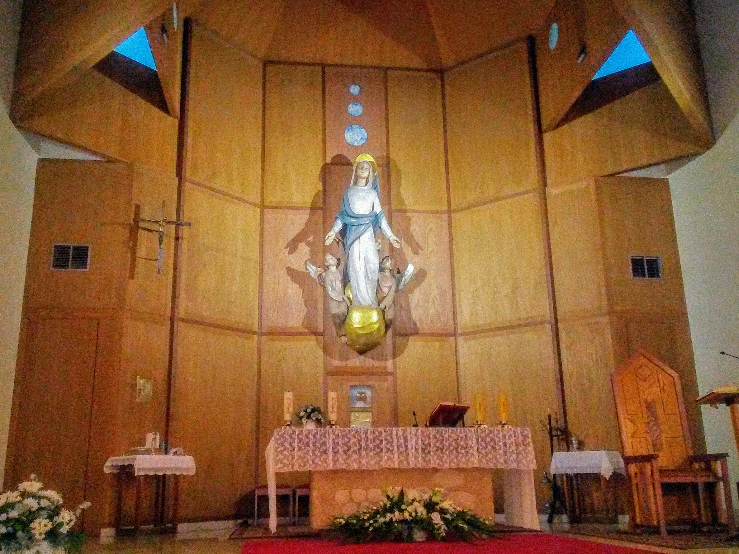 Parroquia de la Asunción (Ourense)